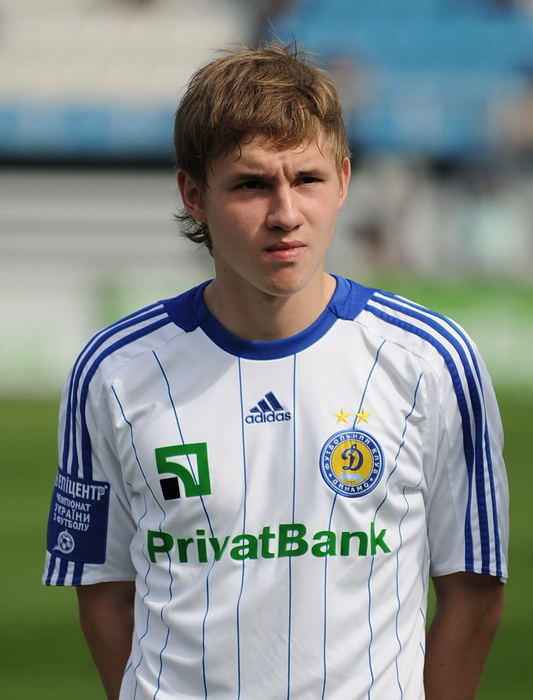 Vladyslav Kalytvyntsev